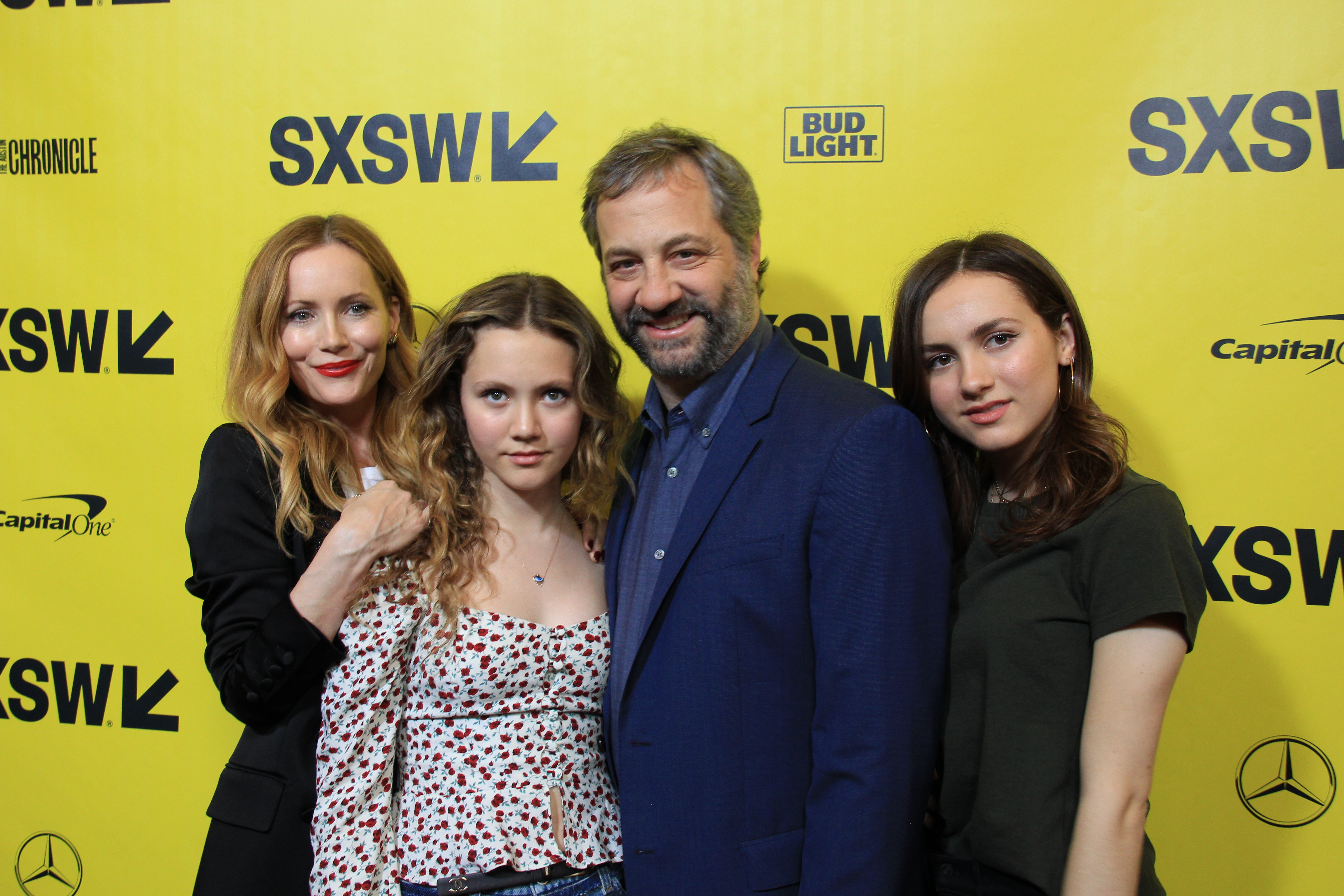 Leslie Mann, Iris Apatow, Maude Apatow and Judd Apatow at SXSW Red Carpet premiere of BLOCKERS